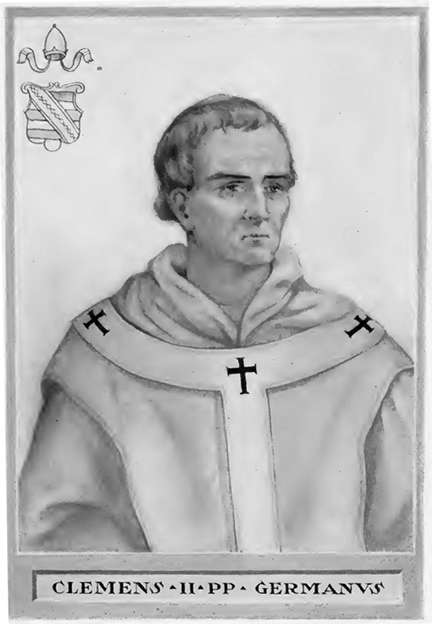 This illustration is from The Lives and Times of the Popes by Chevalier Artaud de Montor, New York: The Catholic Publication Society of America, 1911. It was originally published in 1842.